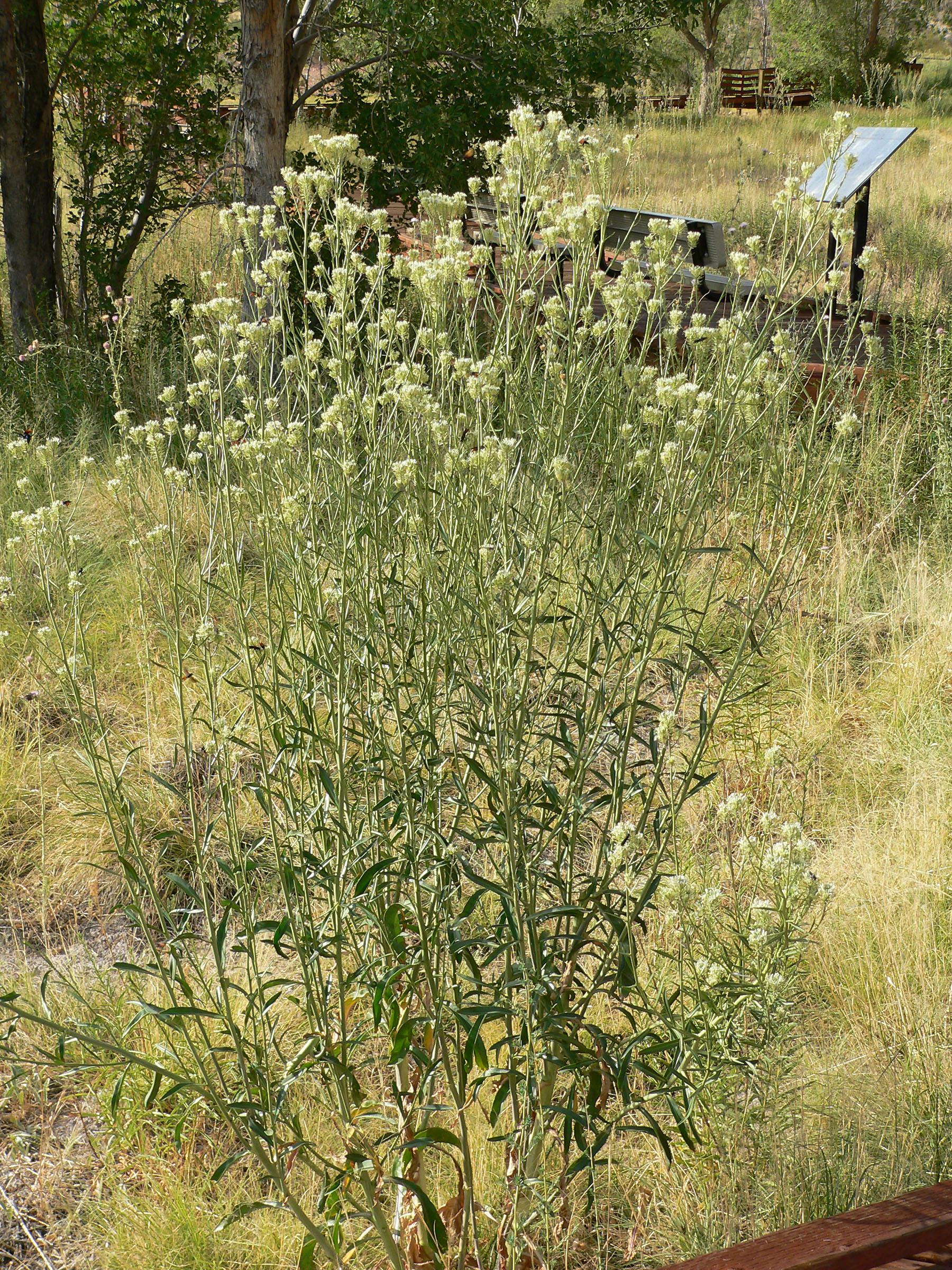 Thelypodium integrifolium subsp. affine at Red Spring, Calico Basin, Spring Mountains, southern Nevada (elev. about 1100 m)